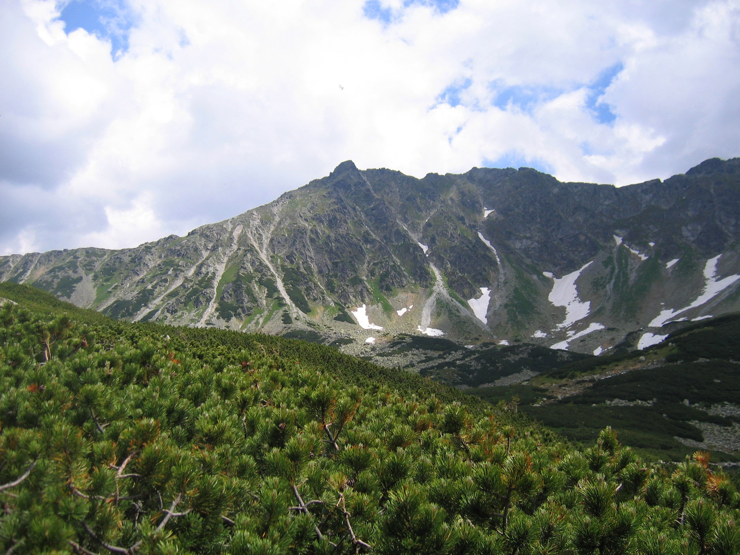 Mountain Pine (Pinus mugo subsp. mugo), natural habitat in Tatra National Park, Poland.